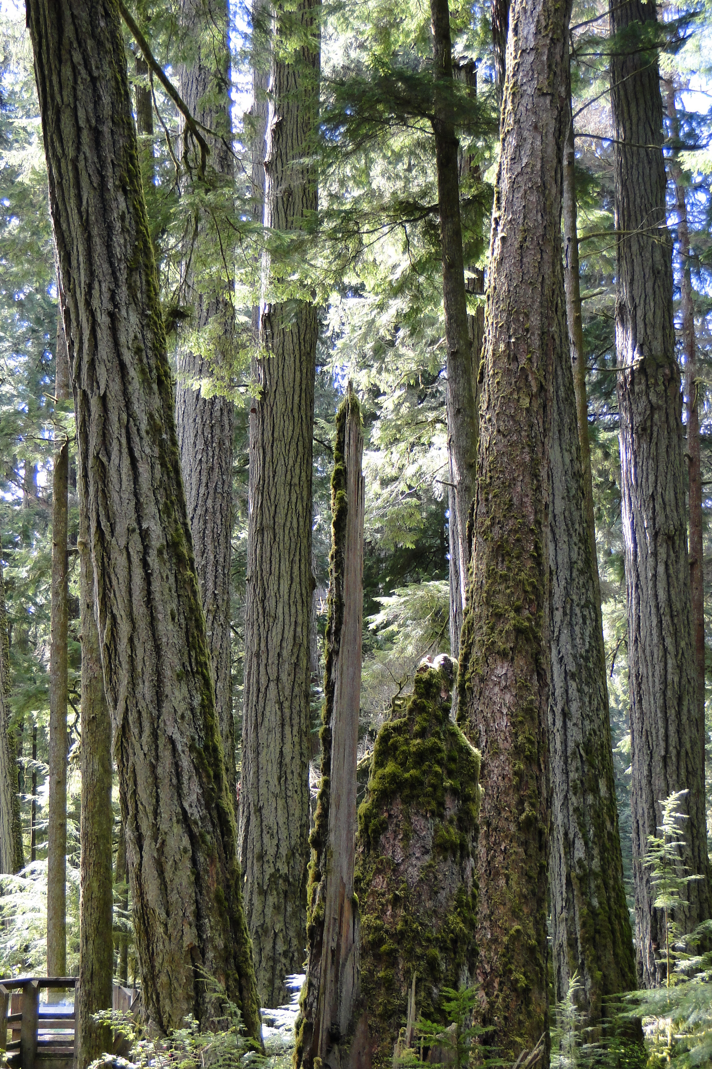 Cathedral Grove - Old Growth Forest - Vancouver Island BC - Canada - 02